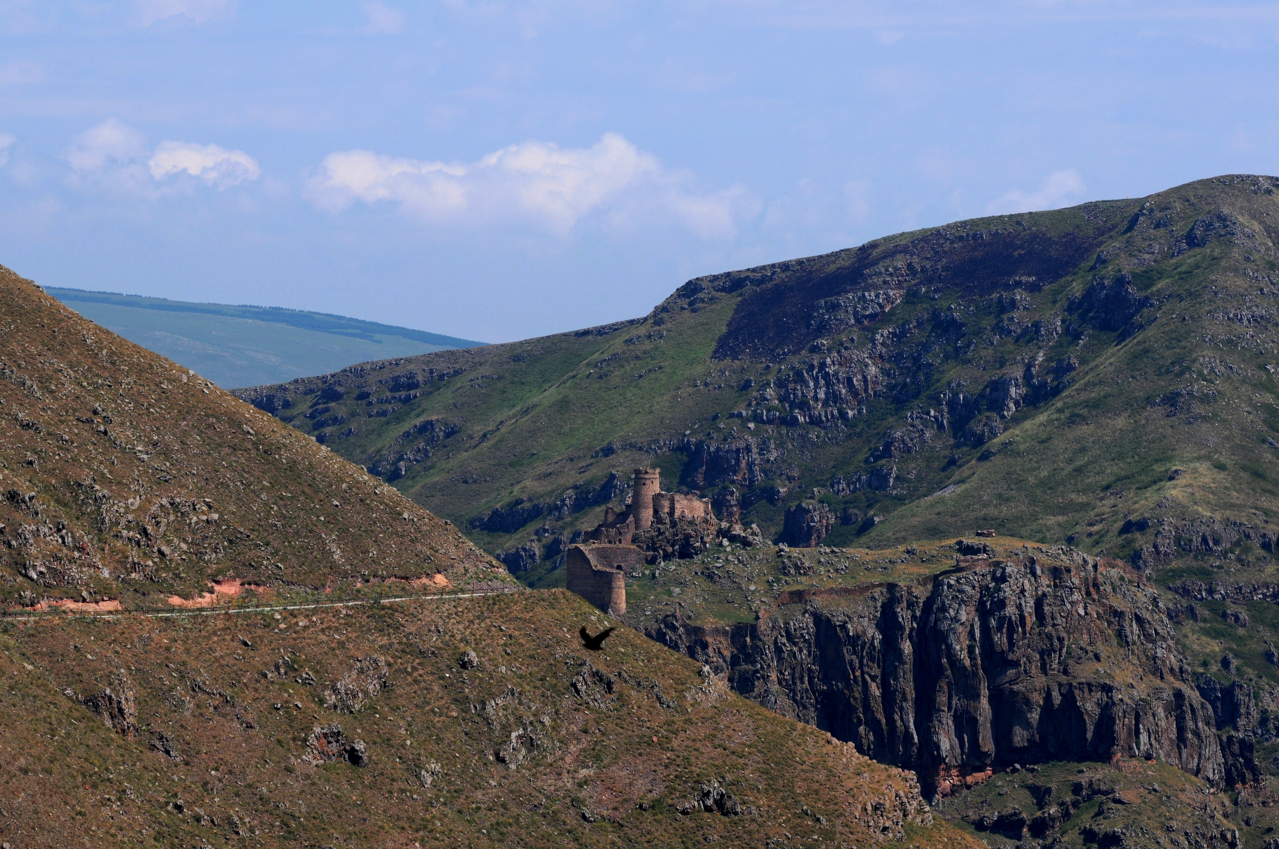 View of Seytan Kale in Kura Canyon in Cildir District of Ardahan Province, Turkey.